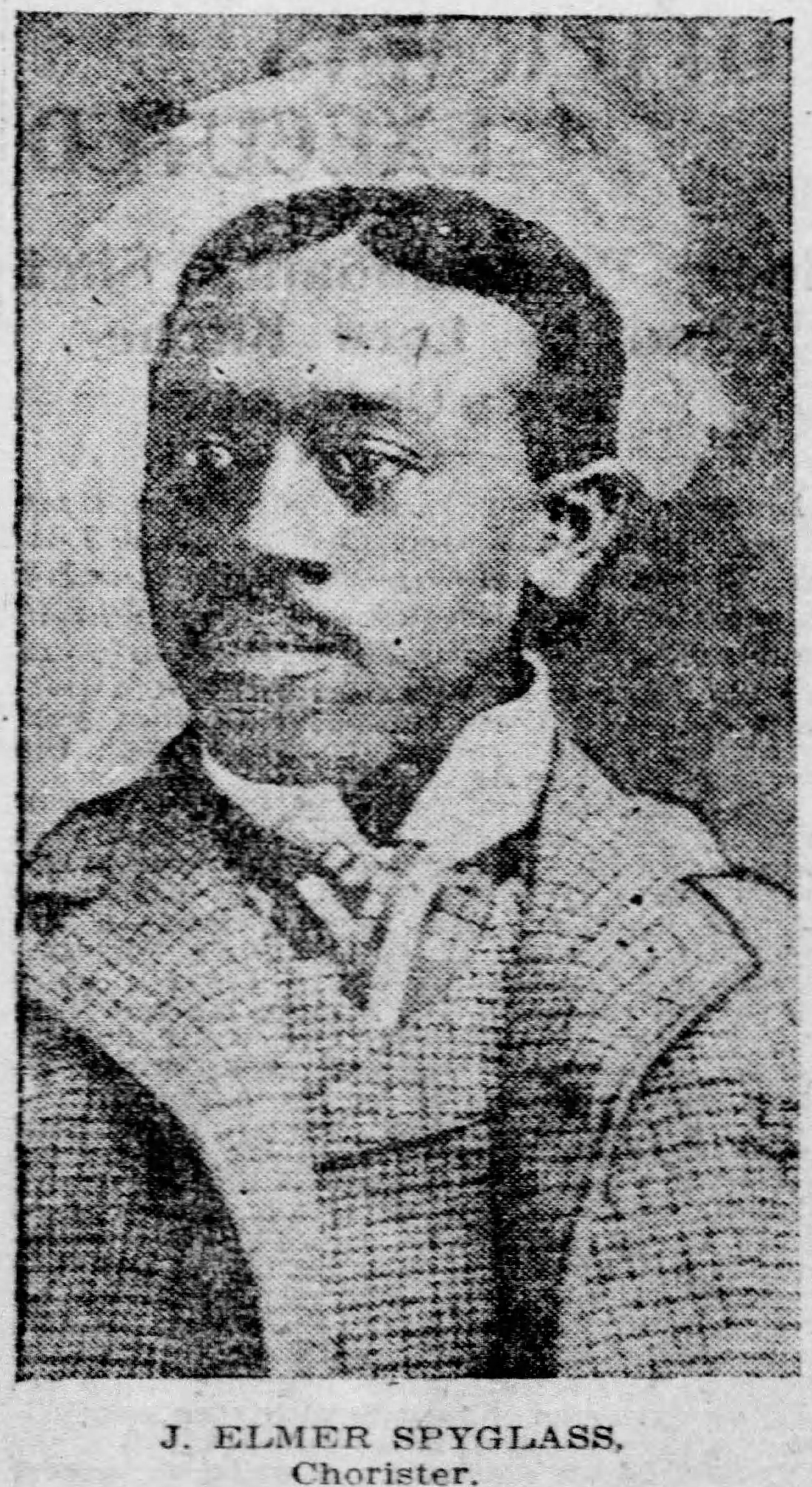 Spyglass in 1901